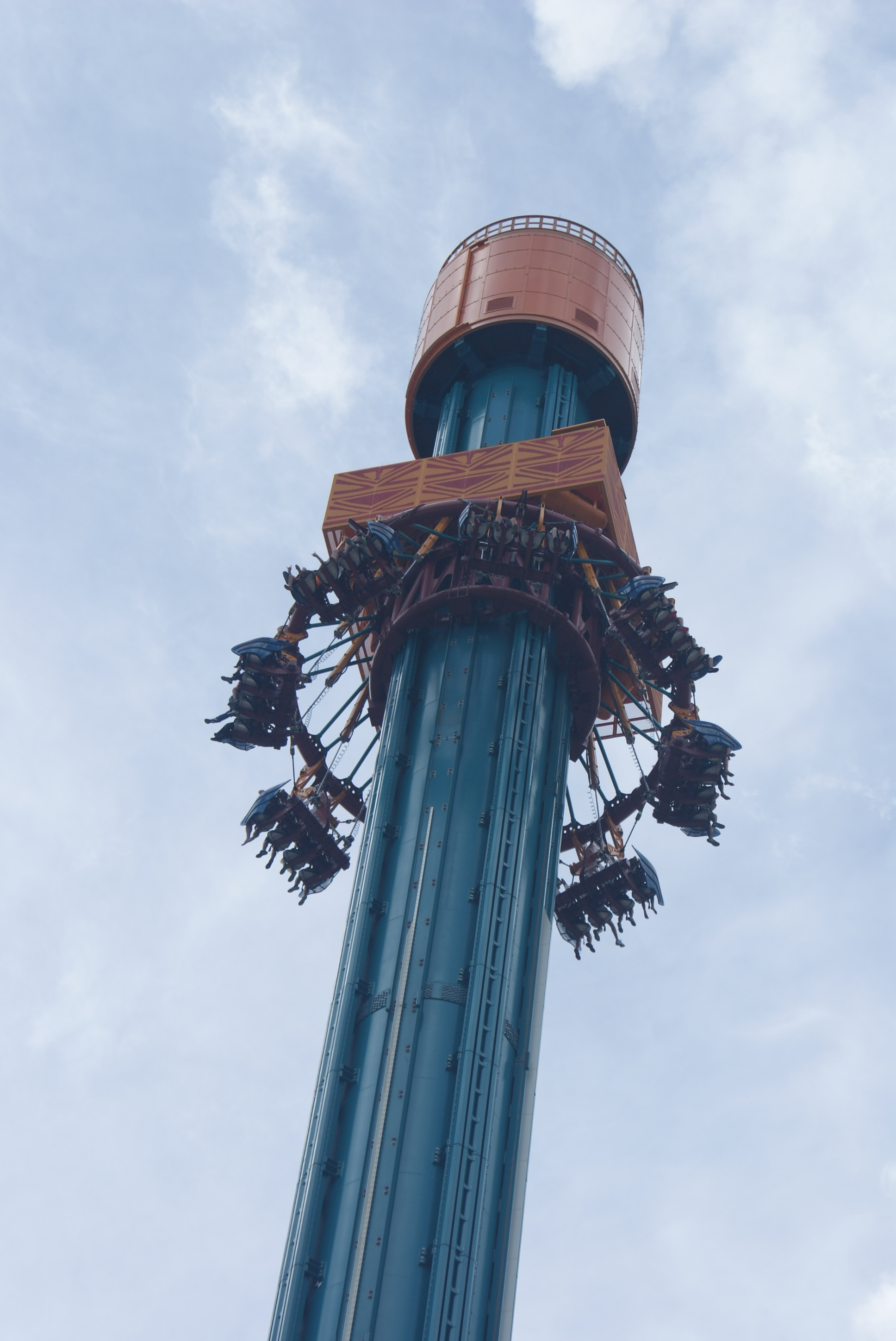 This is a photo of Falcon's Fury in operation during its soft-opening at the Busch Gardens Tampa amusement park.